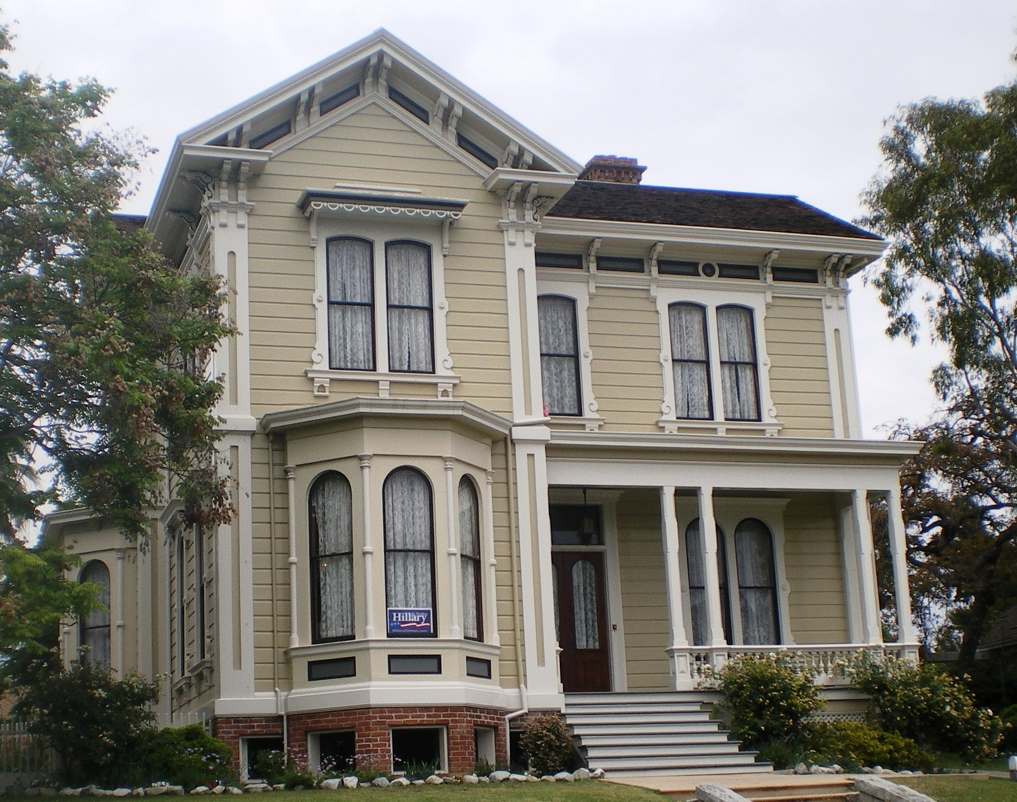 Foy House, 1337 Carroll Ave., Los Angeles, California